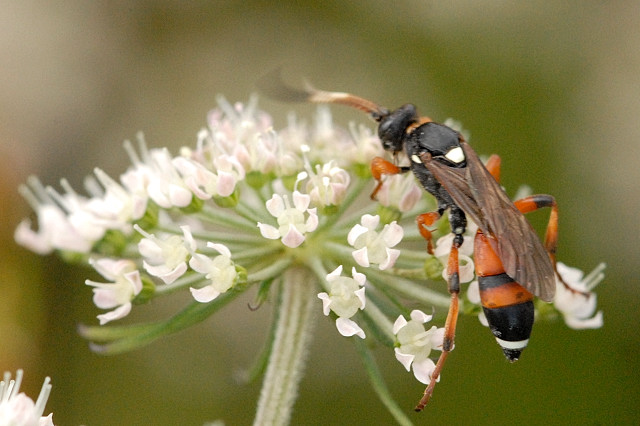 Ichneumon sarcitorius from Commanster, Belgian High Ardennes .